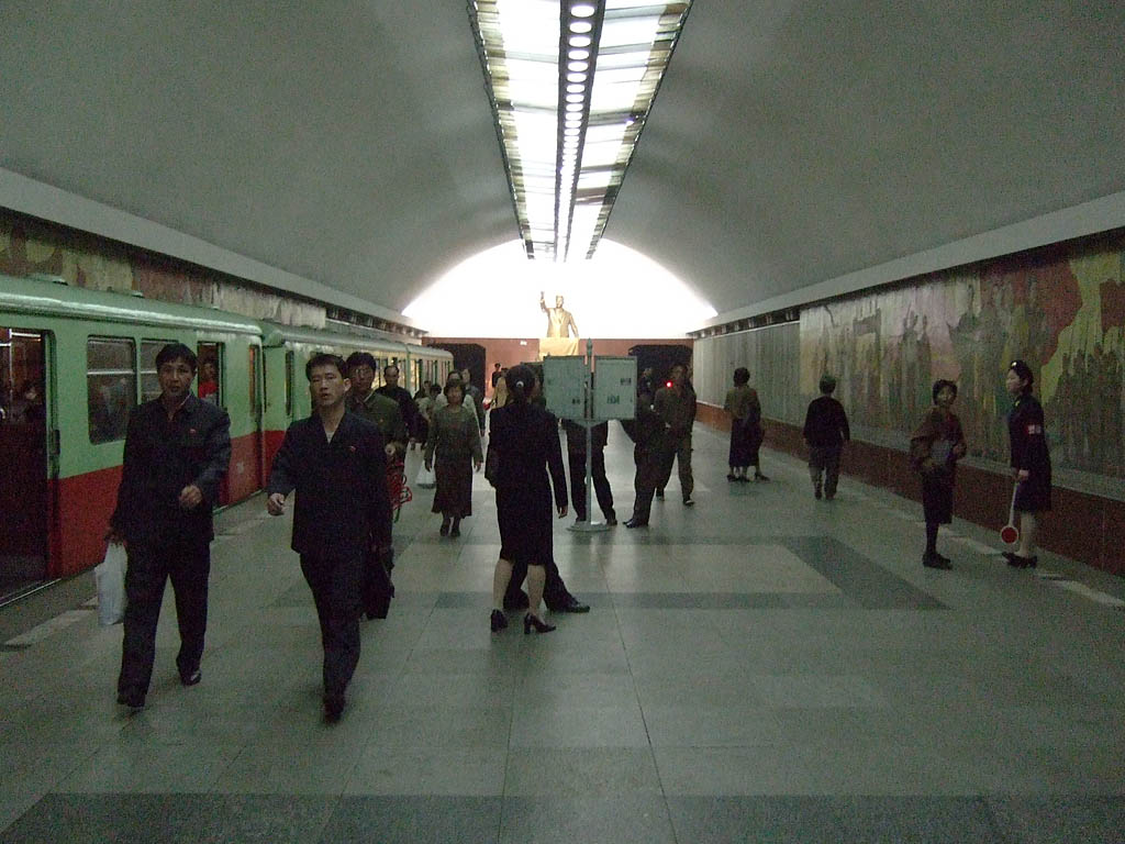 Metro in Pyongyang, Kaeson station.